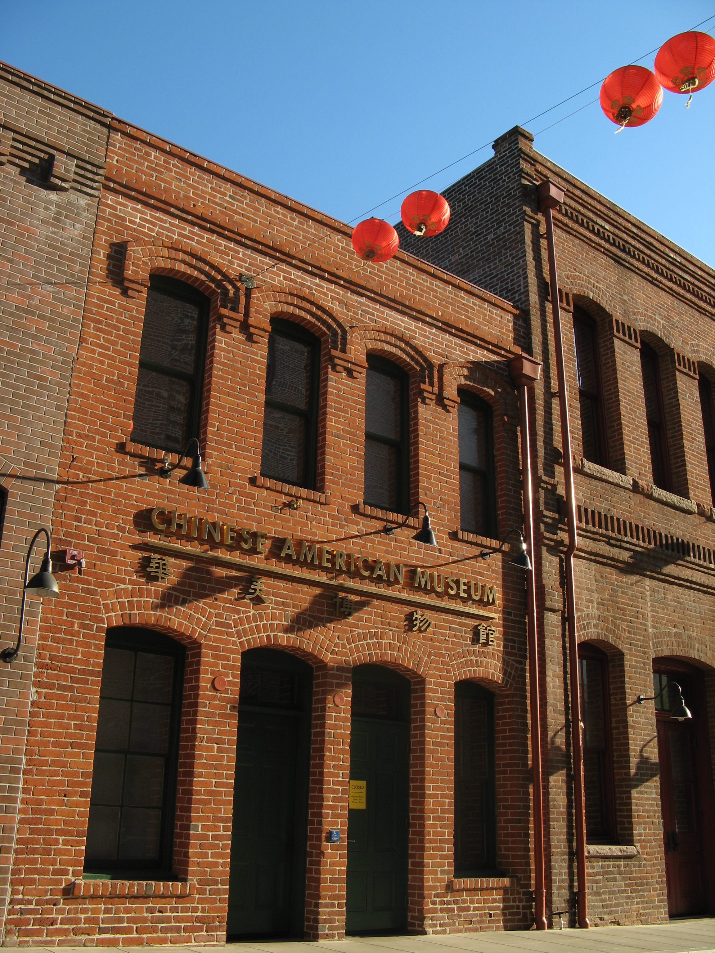 Chinese American Museum, in Downtown Los Angeles. Photographed and uploaded by user:Geographer